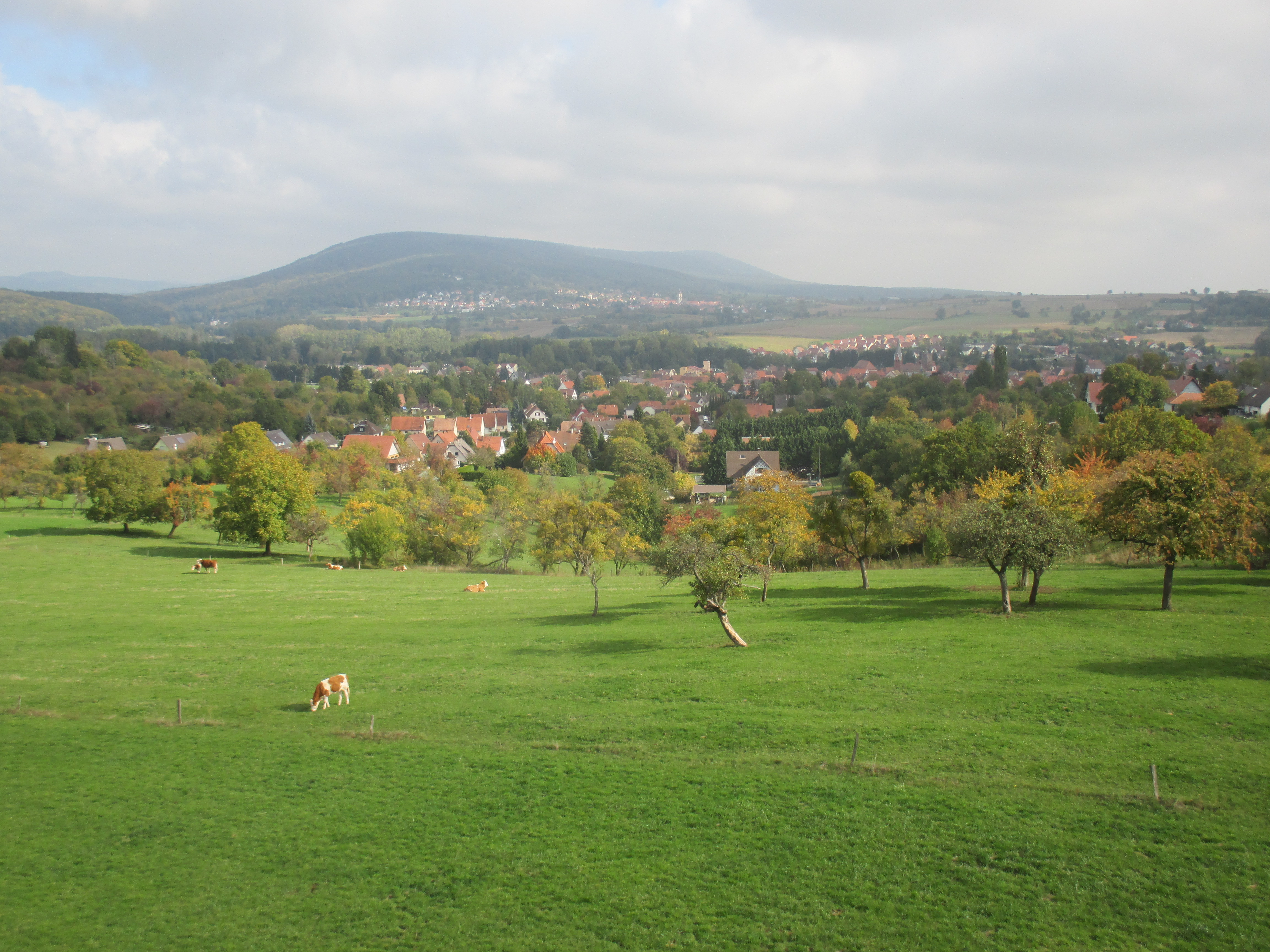 View from the top of Monument to 1st Kurhessischen Feldartillerie-Regiments Nr. 11 in Wœrth. The first village visible is Woerth. The village in the distance is Goersdorf